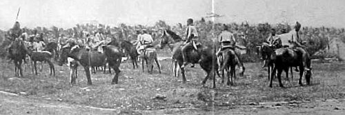 Tausūg horsemen in Sulu, taken on 30 December 1899 from issue of Leslie's Weekly.